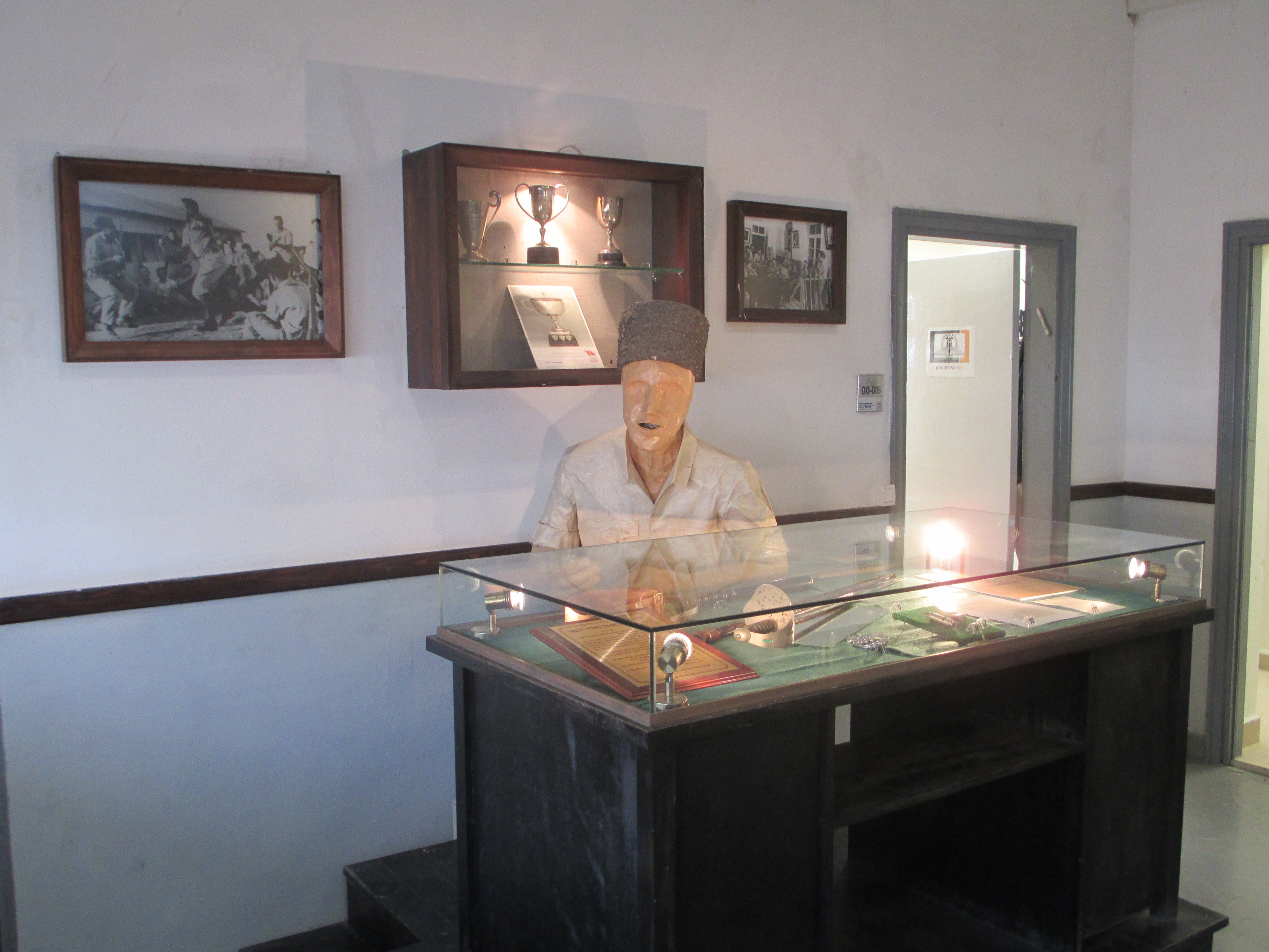 Nahalal Police Station